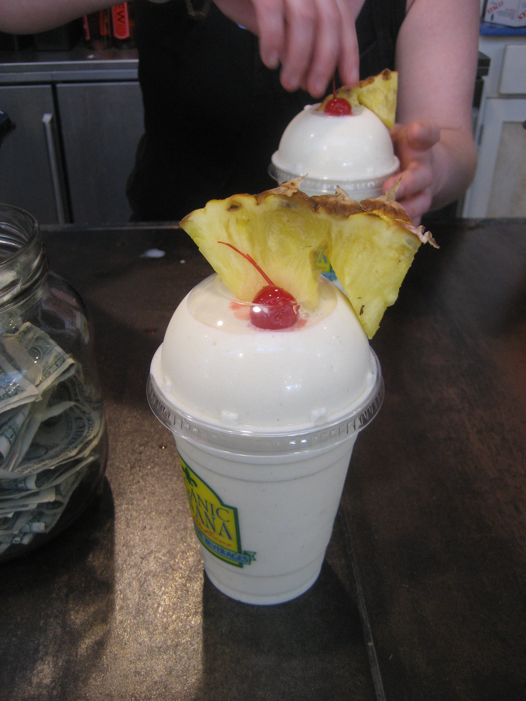 Piña coladas at "Organic Banana" in the French Market, French Quarter, New Orleans.